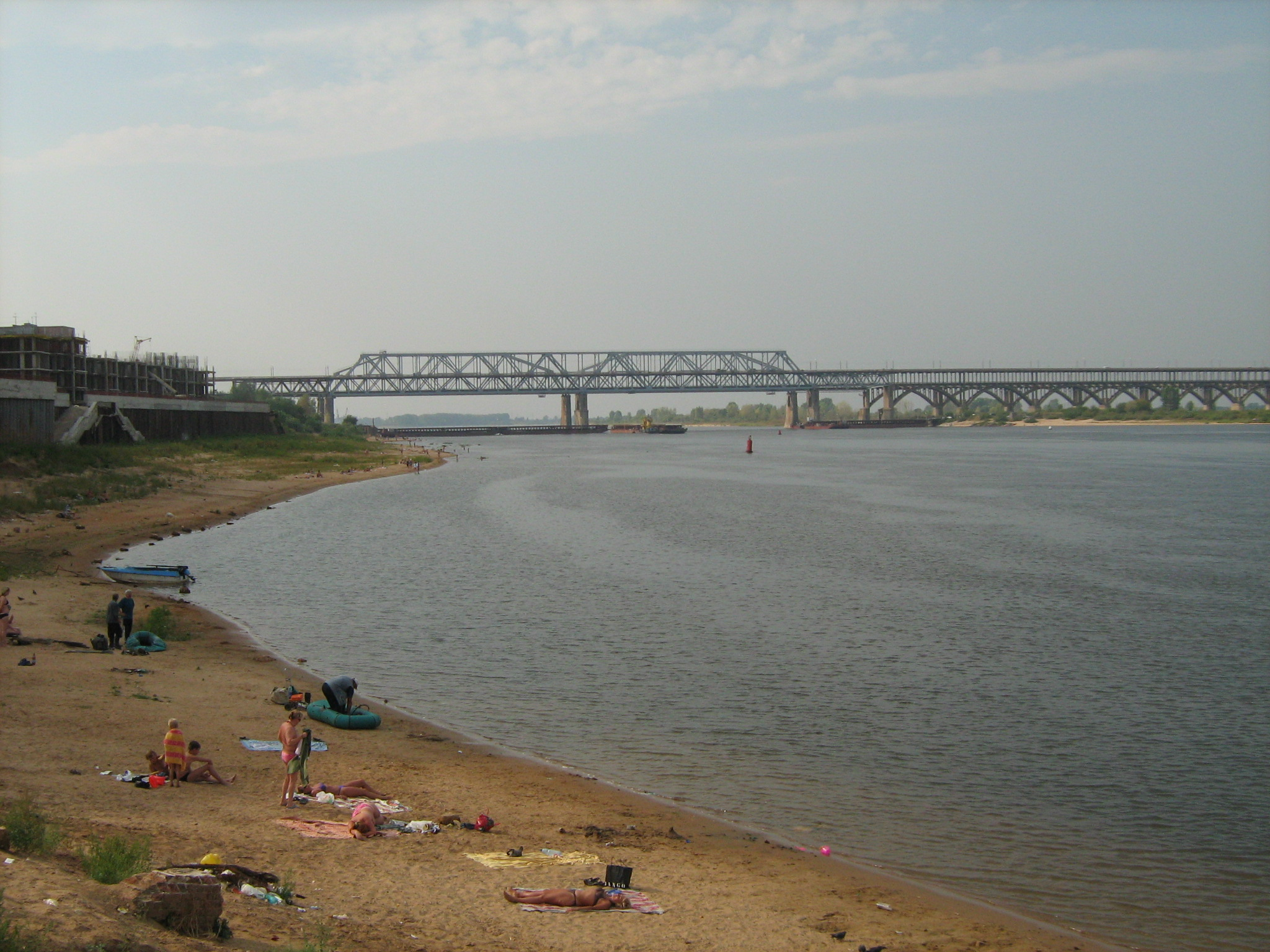 An improvised beach on the Volga shoreline in Nizhny Novgorod Kanavino district, below the Volga Bridge (in the background).